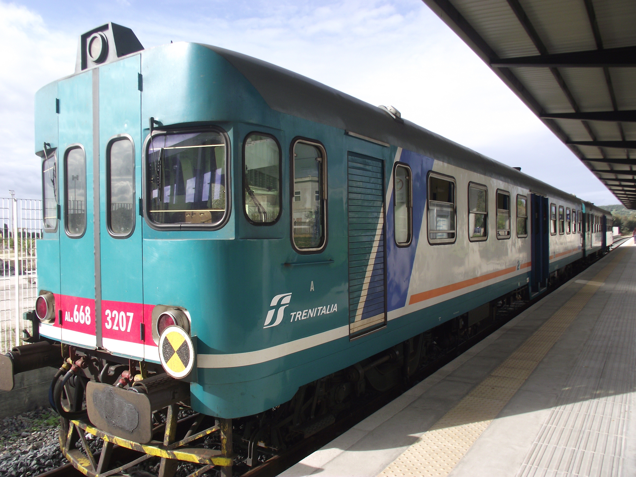 Trenitalia railcar ALn 668 3207 inside the Carbonia Serbariu station in Carbonia, Sardinia, Italy